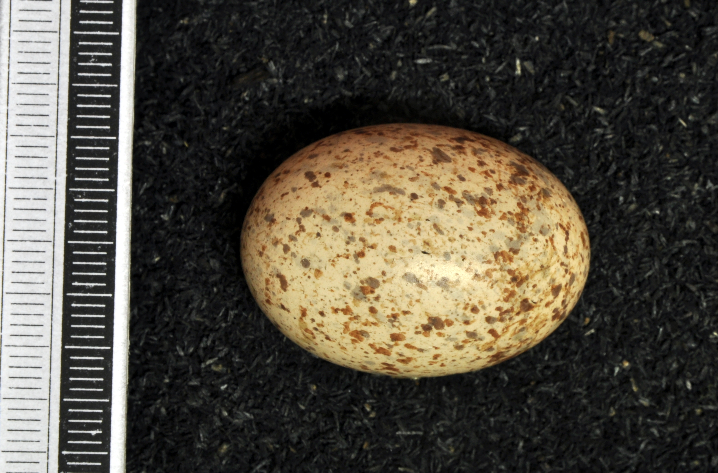 Namaqua sandgrouse Pterocles namaqua , egg, Coll. Museum Wiesbaden